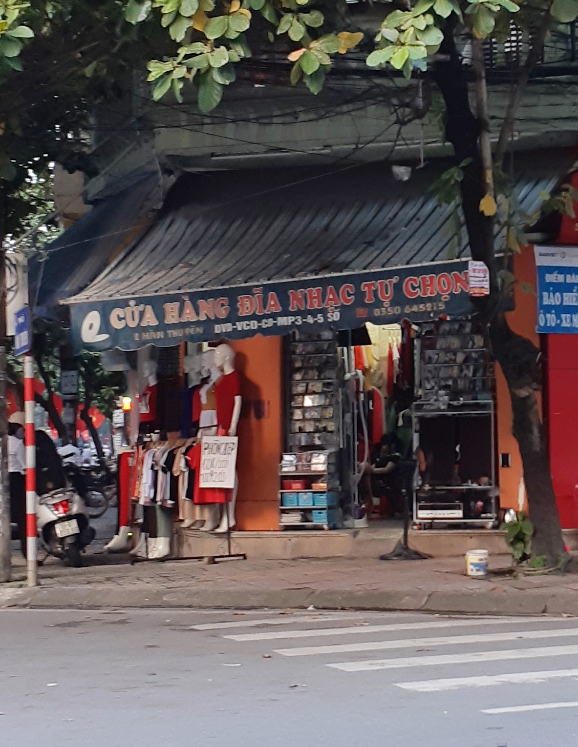 A record shop, at 2 Han Thuyen Road, Nam Dinh City, Nam Dinh Province, Vietnam.